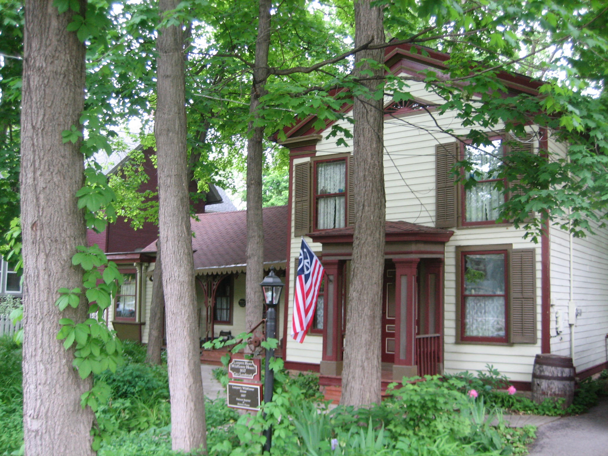 Lampert-Wildflower House, Belvidere, Illinois. National Register of Historic Places.